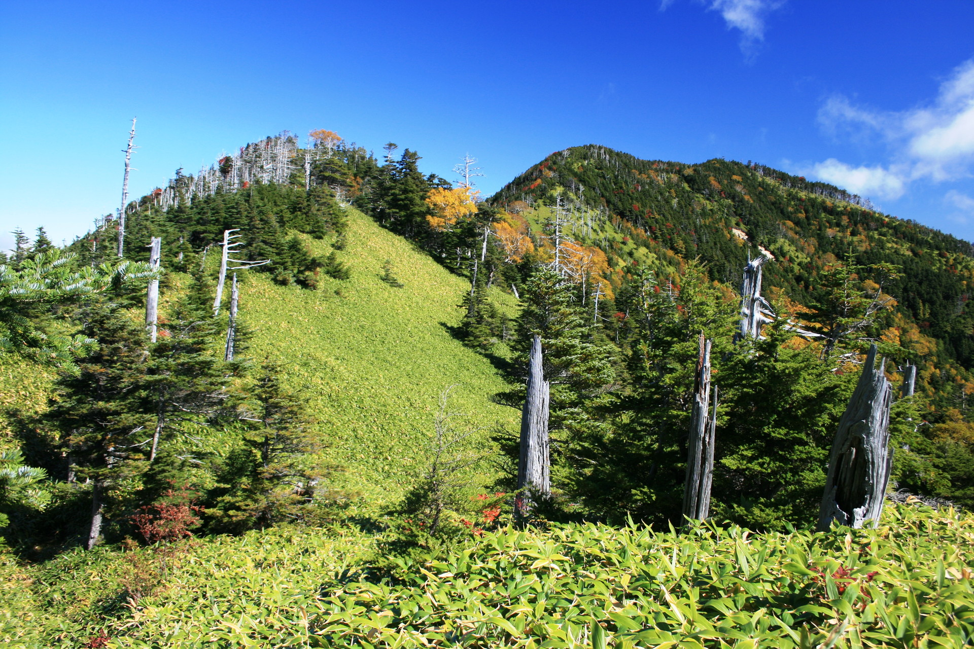 Mount_Ikenodaira_from_Mount_Nenjo